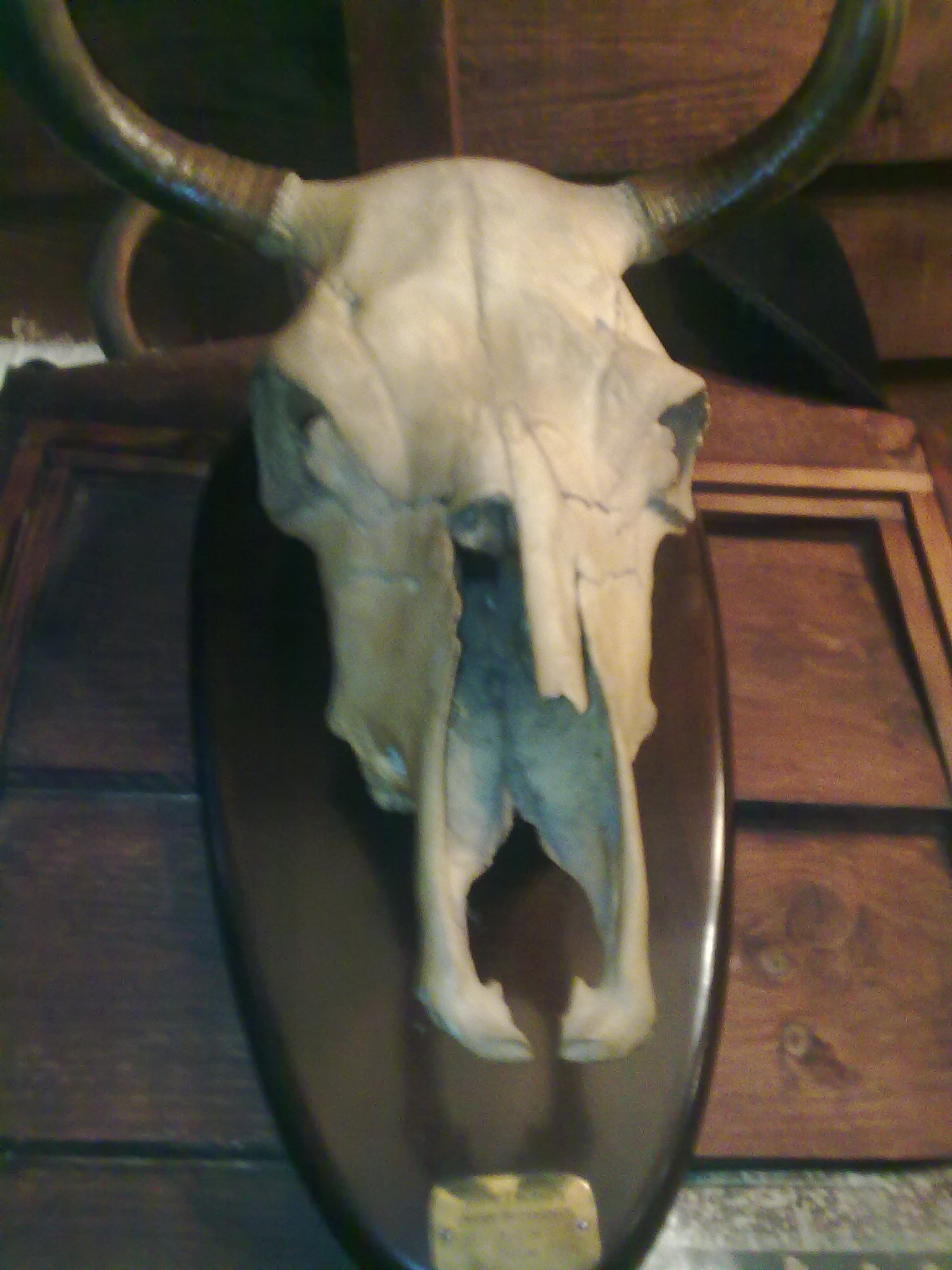 Islero, bull that killed Manolete, exposed in Restaurante Parrondo